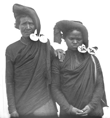 Negative. A woman from Sembiring (the tallest) and one of Batak descent with ear irons (padoengs); the latter is typical of the Karo Plain, North Sumtra.